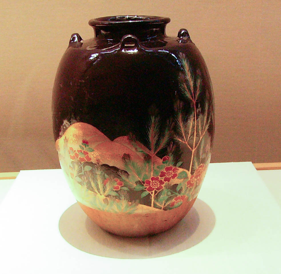 NIN-SEI(1613? -1681?), Stoneware colour glazed , about 10 inches, National Culture Agency, Japan